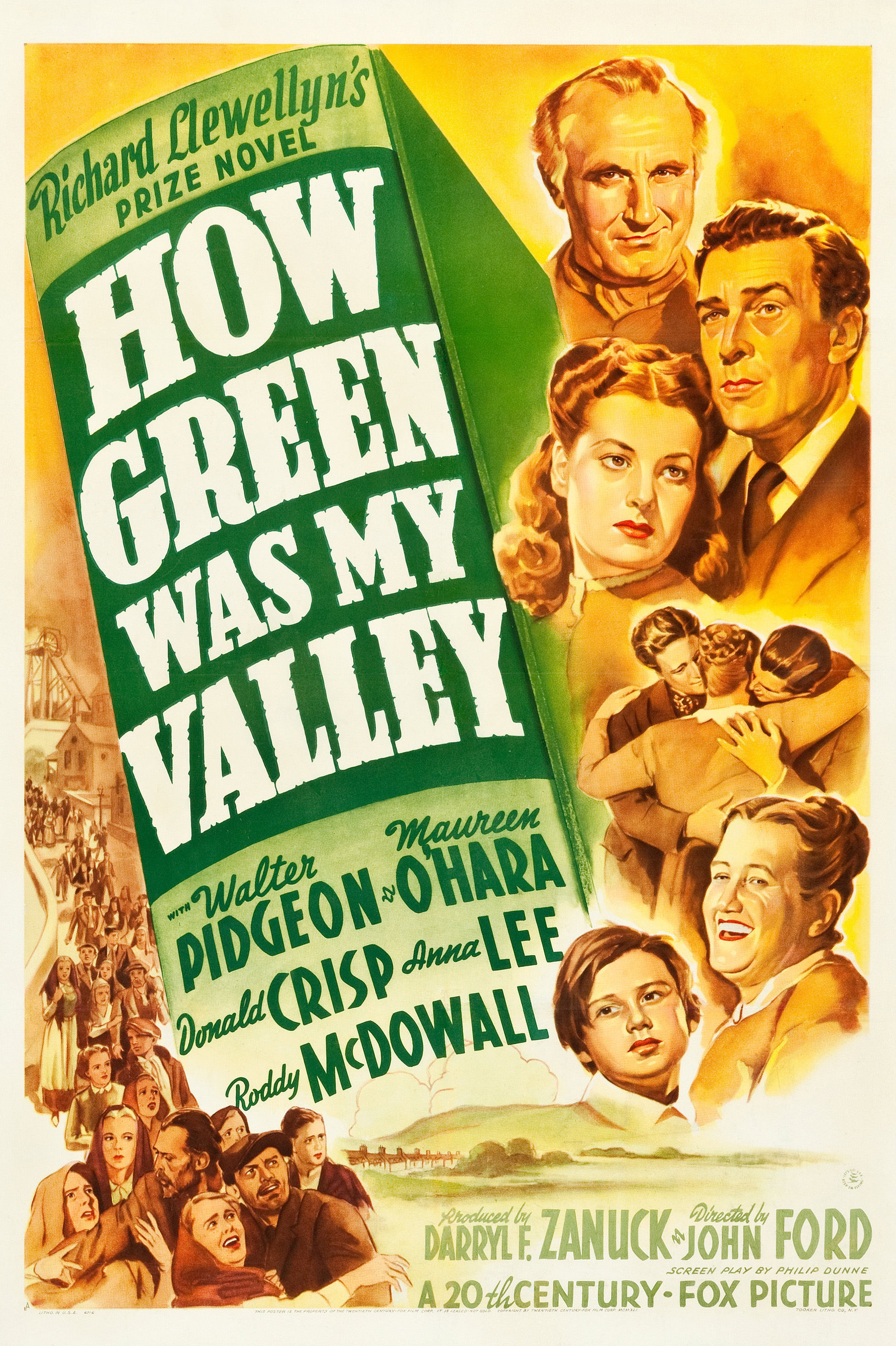 "Style A" theatrical release poster for the 1941 film How Green Was My Valley.